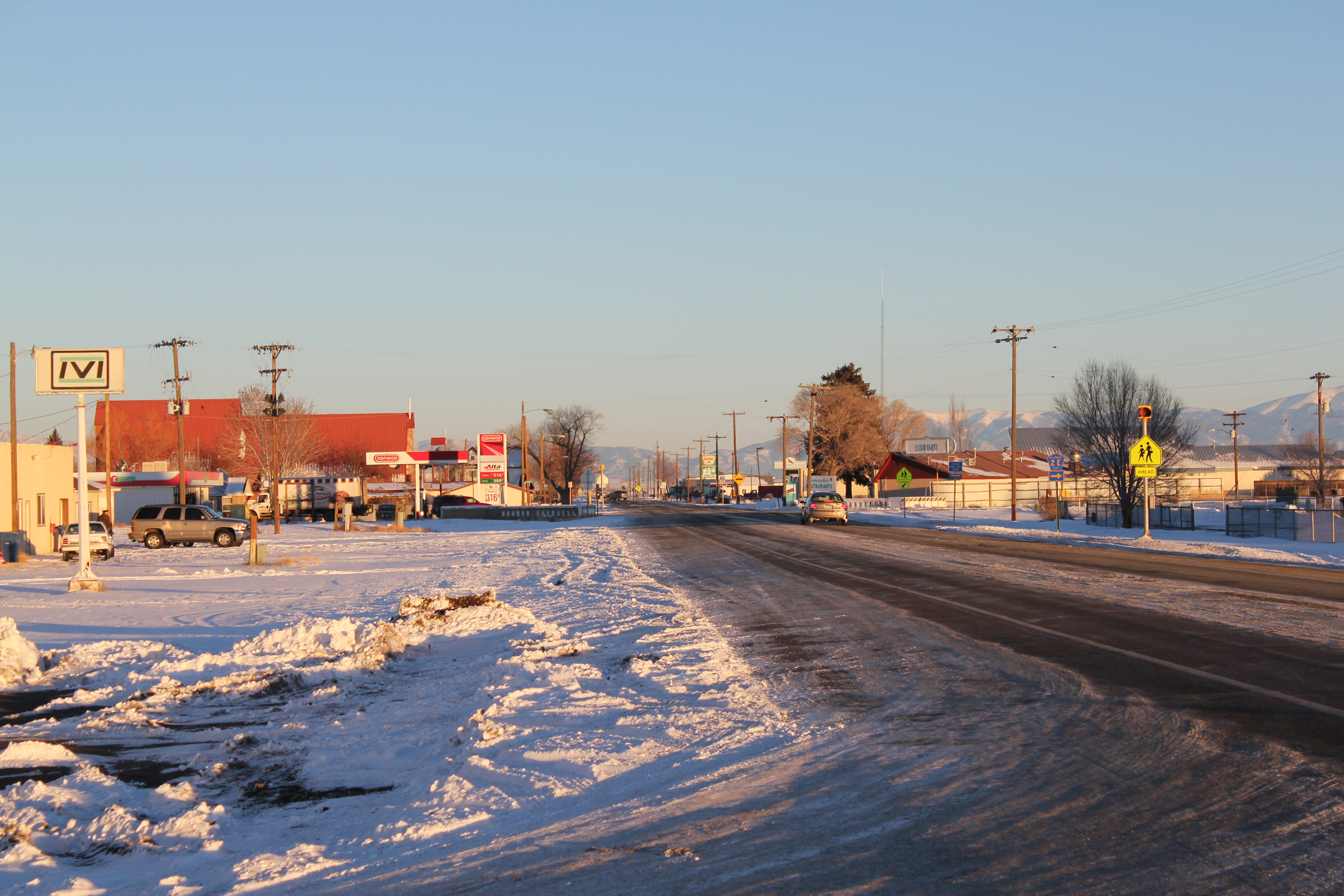 A view of the town of Center, Colorado. The road in the picture is Colorado State Highway 112, which also marks the border between Saguache County, on the left (north), and Rio Grande County on the right (south.). In Center, the road is marked as East 8th Street.